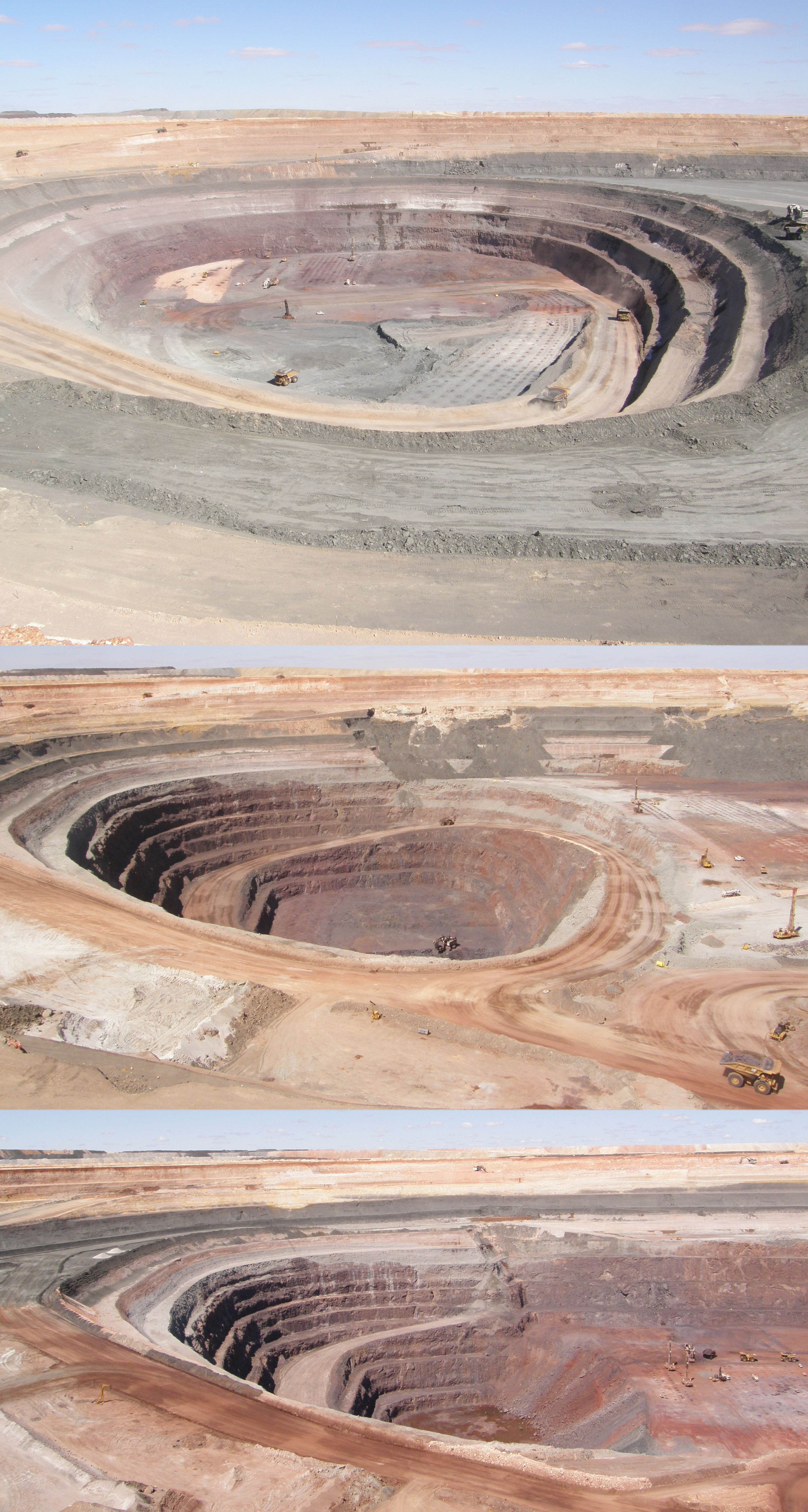 Development of the Prominent Hill open pit between September 2008, September 2009 and September 2010